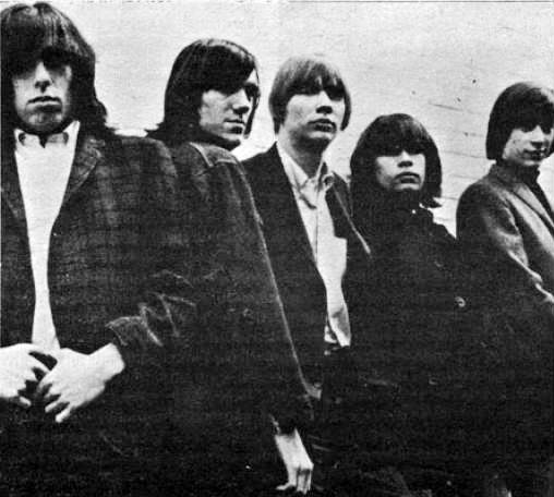 Photo of the rock group The Blues Magoos.